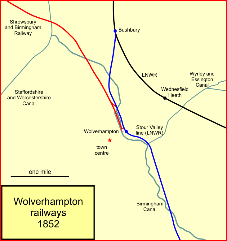 Wolverhampton railways, England, in 1852